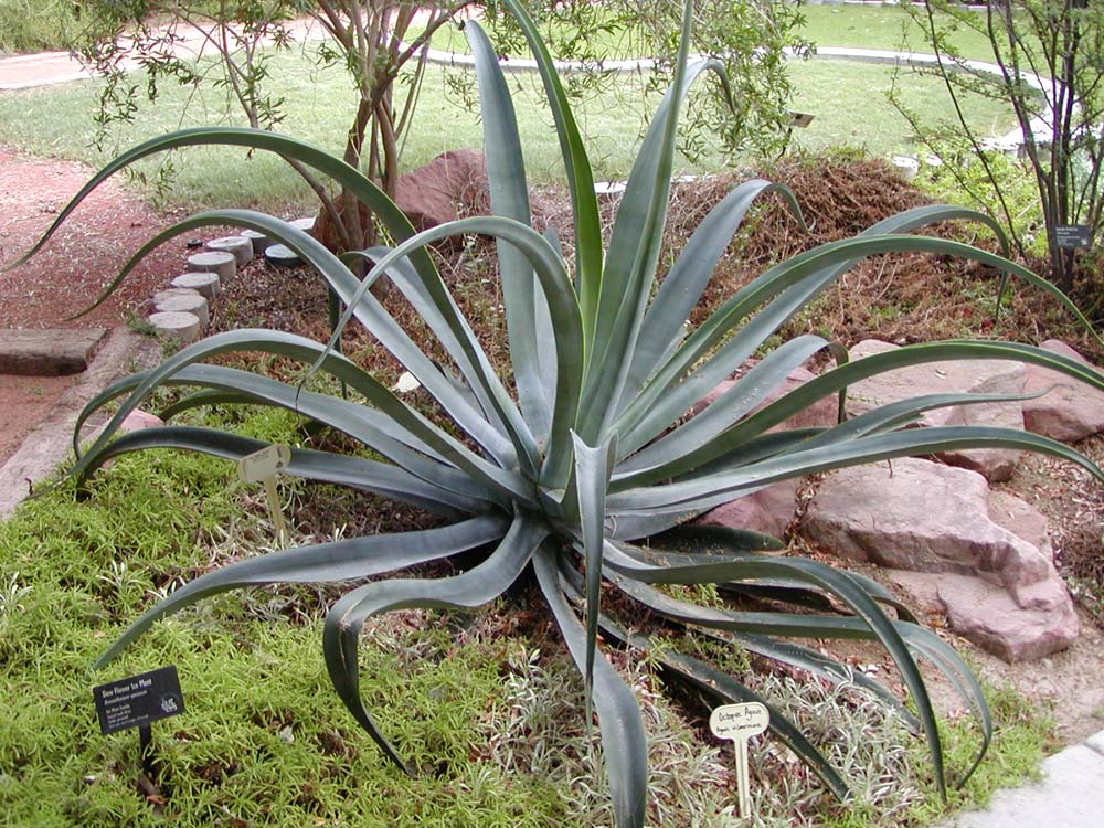 Photo of Agave vilmoriniana (octopus agave) at the Desert Demonstration Garden in Las Vegas